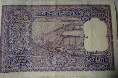 The 100 rupee notes was released on 26.12.1960 during the tenure of HVR Iyengar (RBI Governor from 01.03.1957 to 28.02.1962). The size of this note is 109x172 mm. There are various colours on this note, the predominant one being Lavender. The prefix (AA/69 on this specimen) is placed in double lines and mentioned in red colour on the top left hand corner and diagonally opposite on the bottom right hand corner. There is a circular “100” numeral on both sides, on one side flanked by “Rs” in English and on the other by “Ru” in Hindi. The numerals “100” and “RBI” on either side of the Governor’s signature are in intaglio (incised/raised design). There is a floral design around the signature and around the words displayed prominently “ONE HUNDRED RUPEES” in English and “EK SAU RUPIYE” in Hindi. On the back, there are thirteen Regional languages along with an image of the Hirakud Dam and Hydro-Electric station. On the left and right side of the Note are the words “ONE HUNDRED RUPEES” and the numeral “Rs.100”, while the words “Ek Sau Rupiye” appear on the top right hand side of the Note. In the bottom centre is the RBI logo with floral designs.[1].